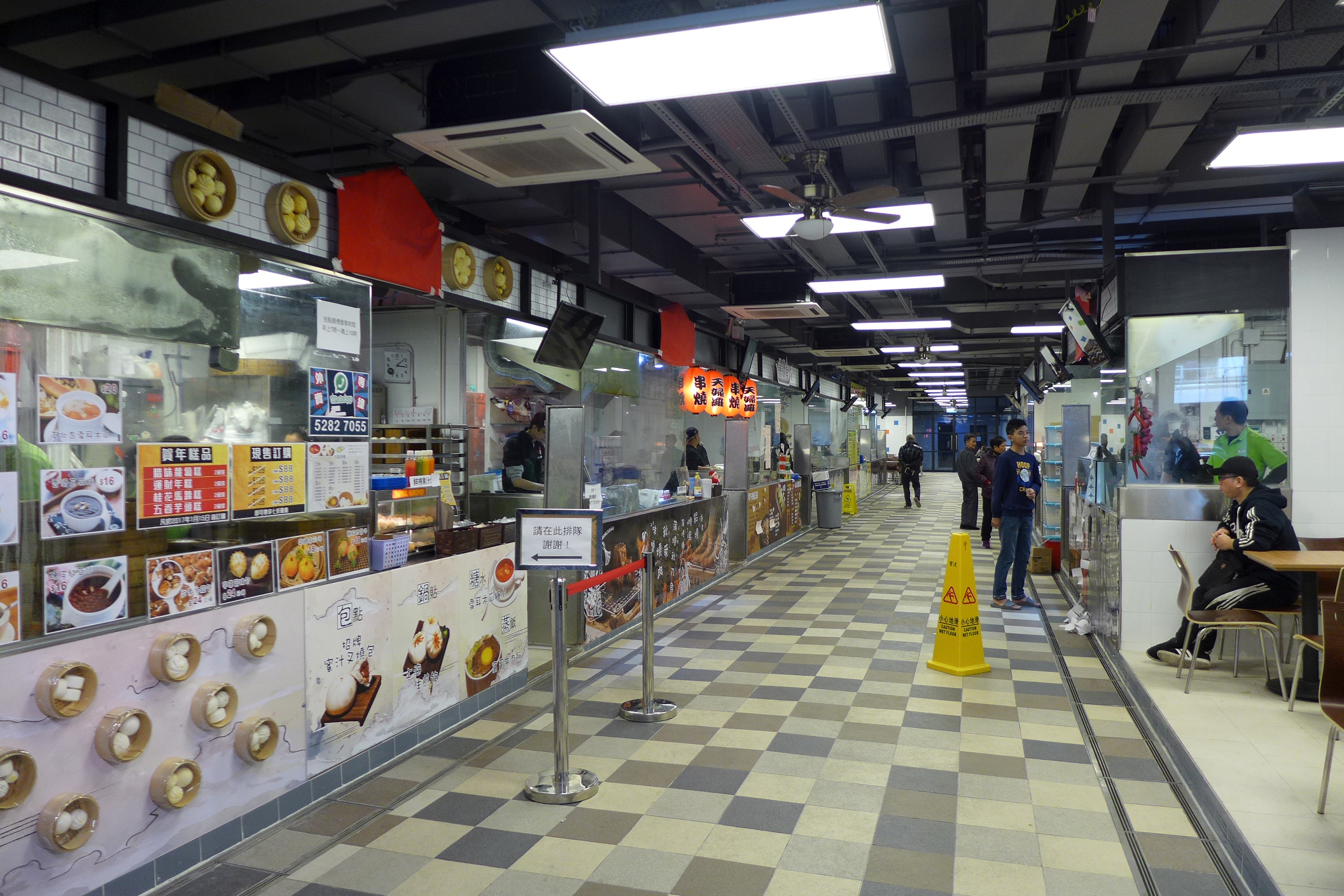 Lee Tung Food Mart